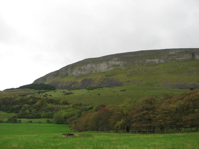 Knocknarea Mountain Looking at the cliffs along the western end of Knocknarea.